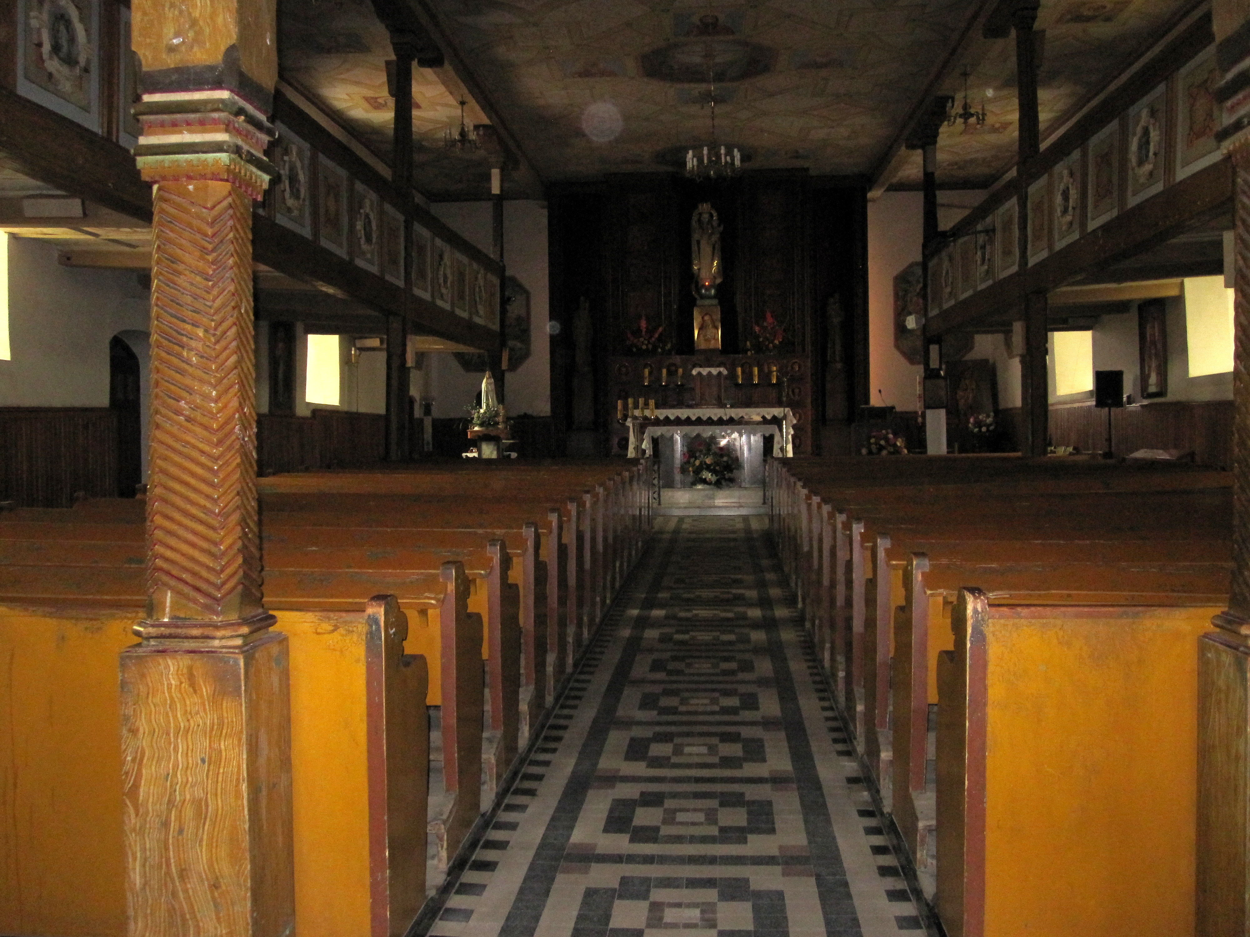 Church of Our Lady of the Scapular in Orzysz